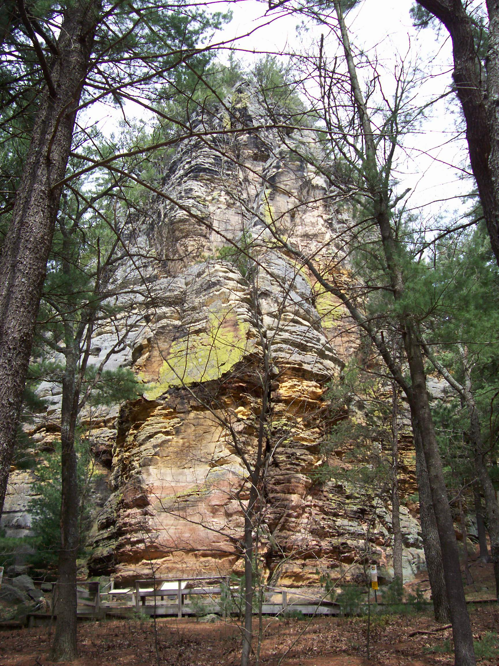 Looking north at the rock outcropping that contains the Roche-a-Cri Petroglyphs at the Roche-a-Cri State Park north of Friendship, Wisconsin, USA. The petroglyph site is a registered historic place.